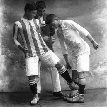 Maccabi Tel Aviv players David Tidhar Yehuda Hetzroni and Yosef Yekutieli - 1913